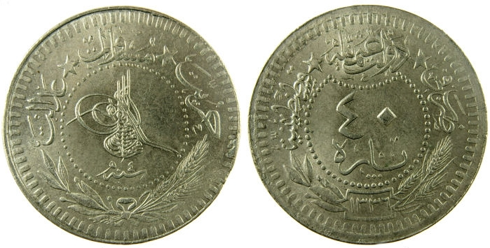 40 Para coin minted in Kostantiniye (Constantinople), 1336 AH